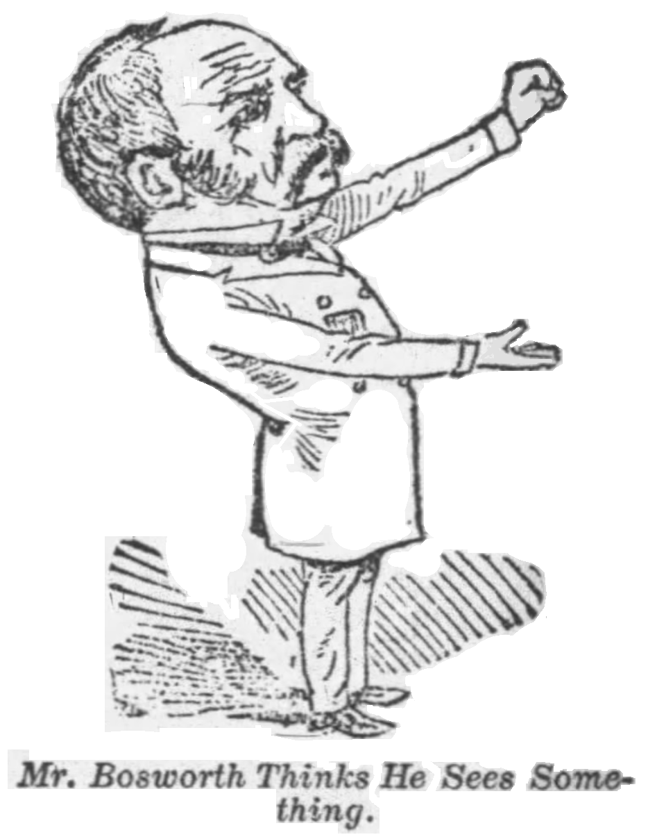 Political cartoon of Benjamin M. Bosworth from his attendance at the 1888 Republican National Convention,with the caption, "Mr. Bosworth Thinks He Sees Something .